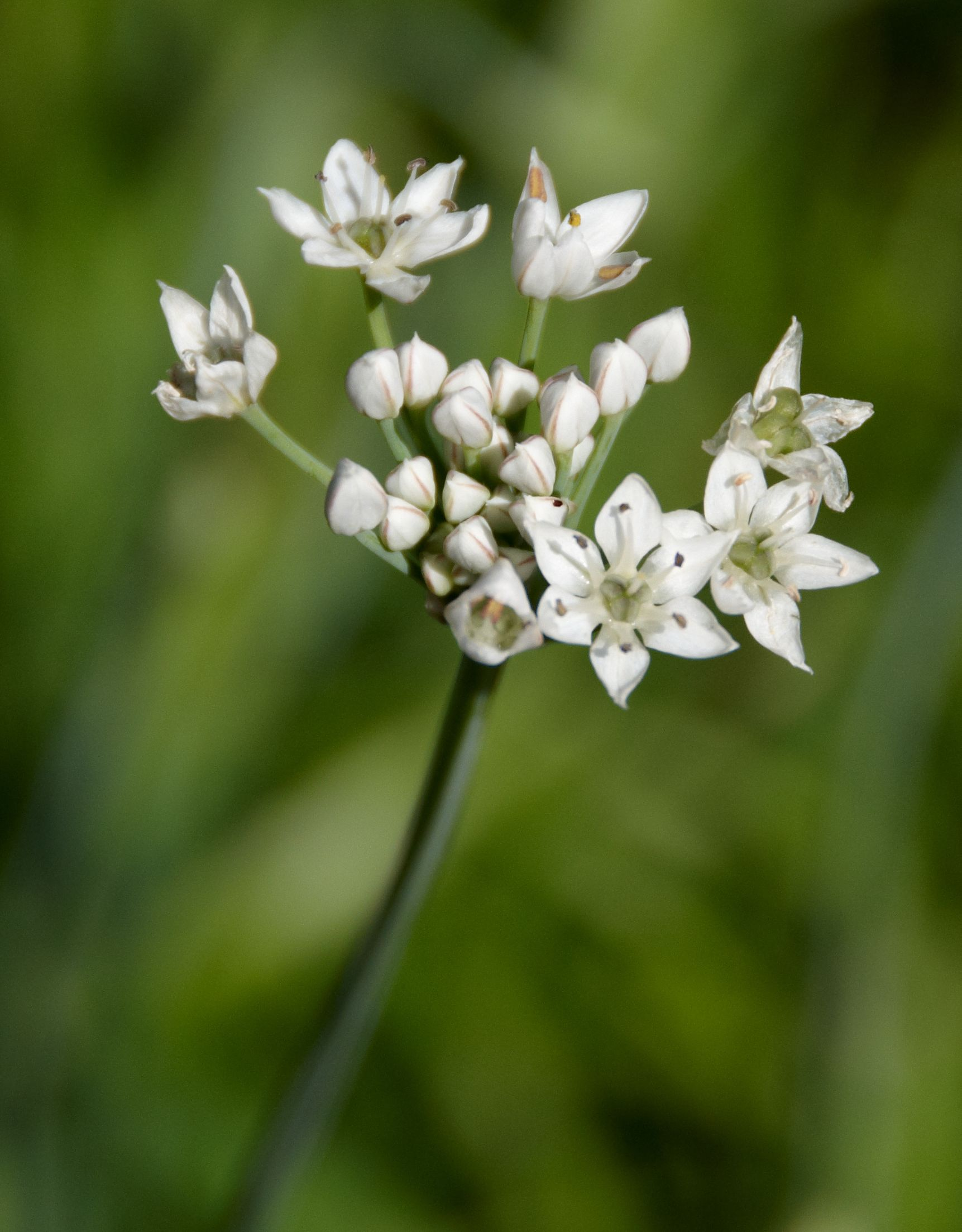 Allium tuberosum